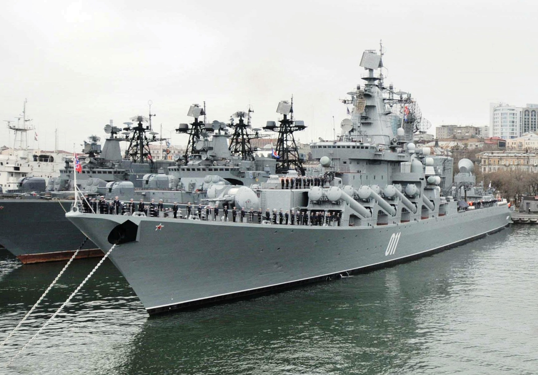 Russian missile cruiser Varyag and project 1155 large ASW ships in the port of Vladivostok on May 7th, 2010.